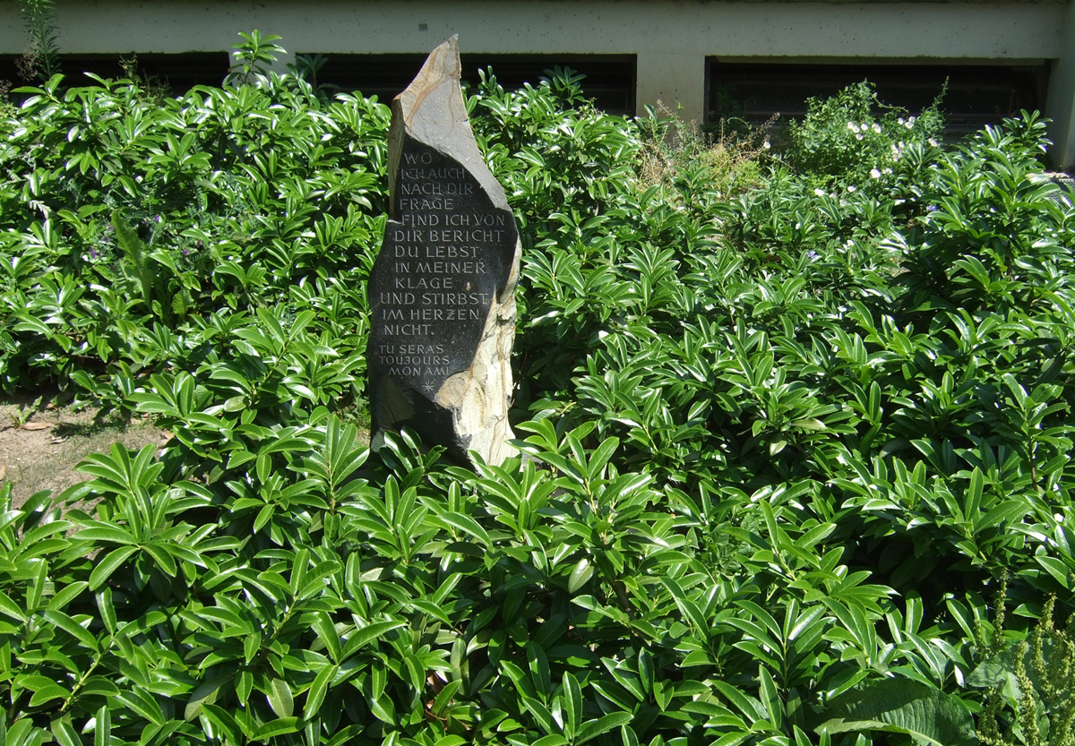 Jakob von Metzler Memorial in front of Carl-Schurz-School in Frankfurt am Main, Germany